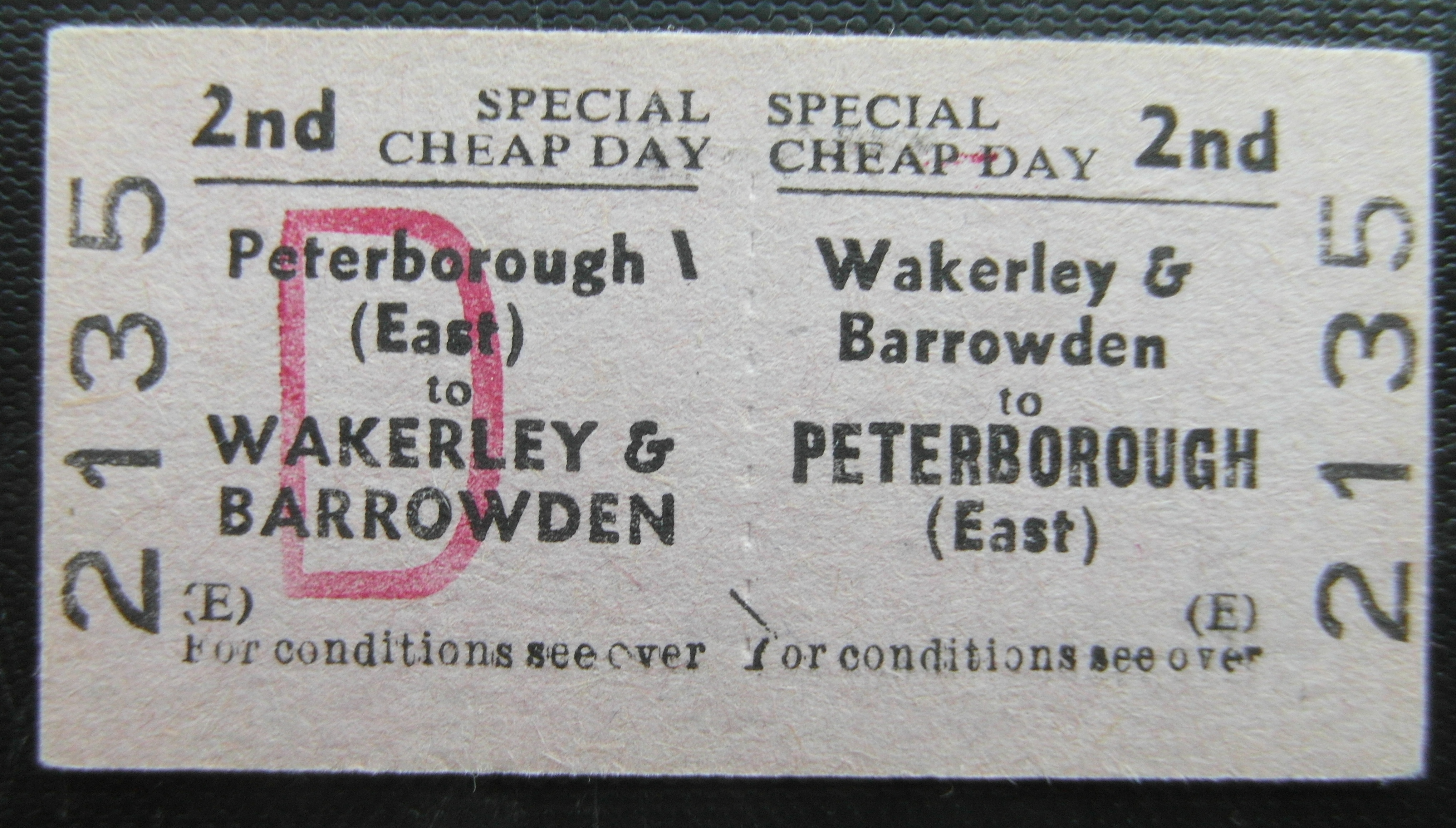 Photograph of railway ticket